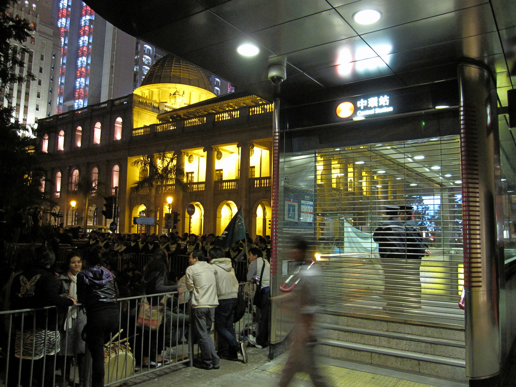 Anti-Guangzhou-Shenzhen-Hong Kong rail oppositions Jan 2010 protest 香港反高鐵撥款警民衝突